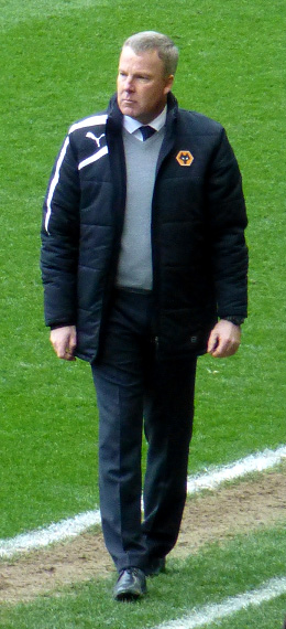 Kenny Jackett - Wolverhampton Wanderers vs Peterborough United (05/04/2014)